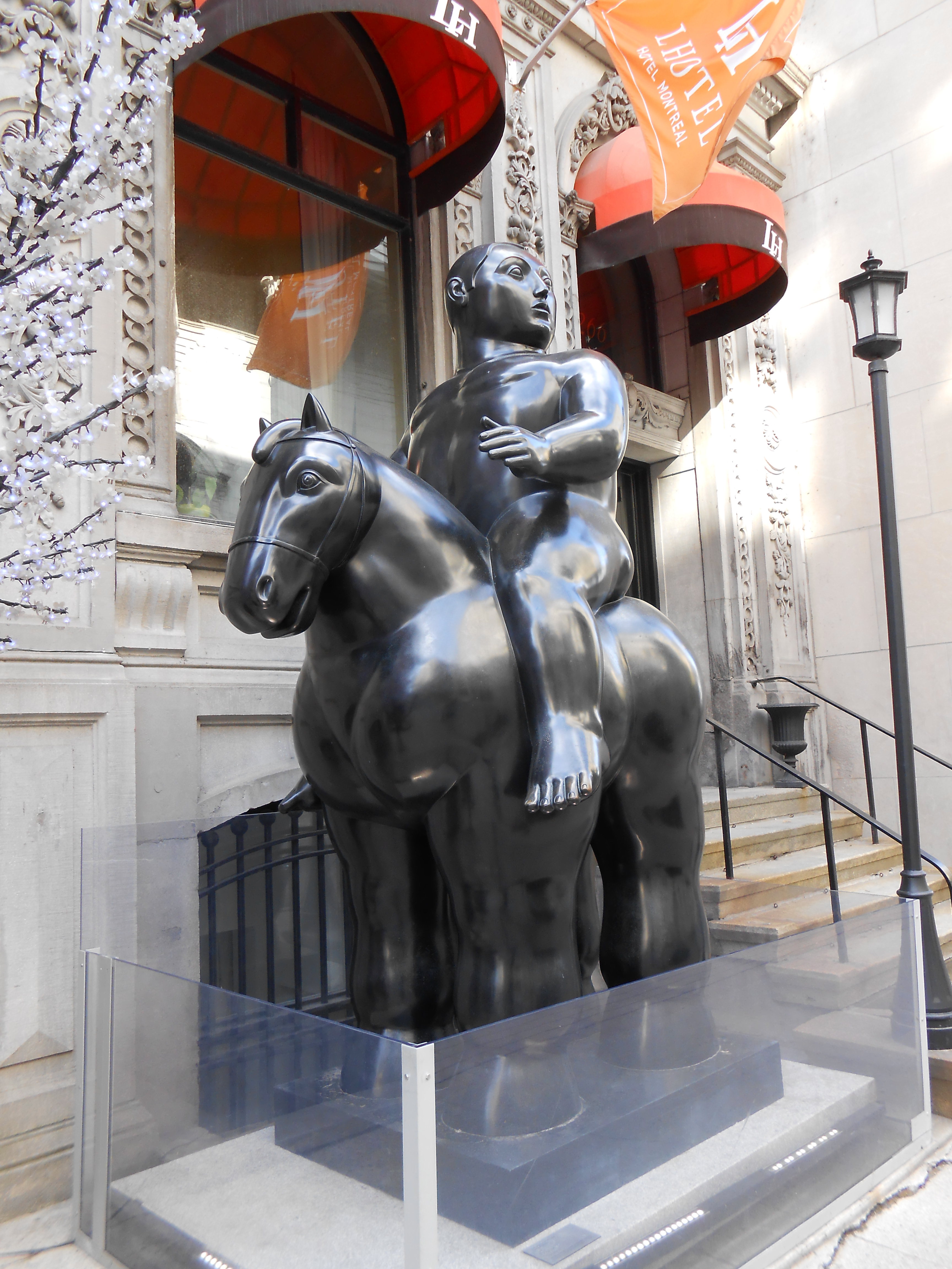 The Volumptuous man. A piece by Columbian artists Fernando Botero, whose style is characterized, among others, by the rounded shapes of his figures.